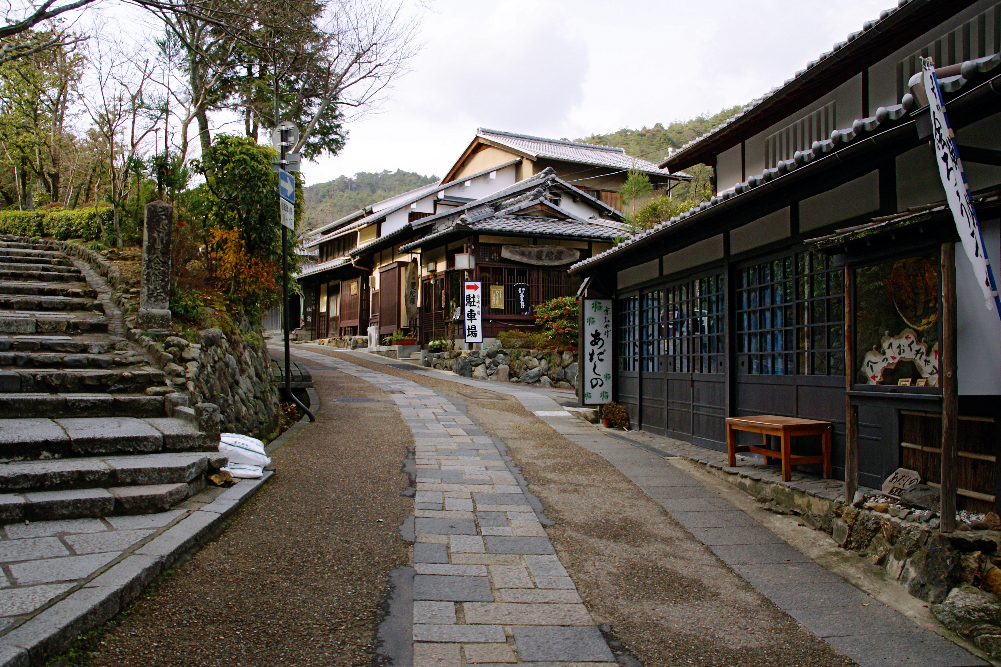 Saga-Toriimoto in Sagano, Kyoto, Kyoto prefecture, Japan